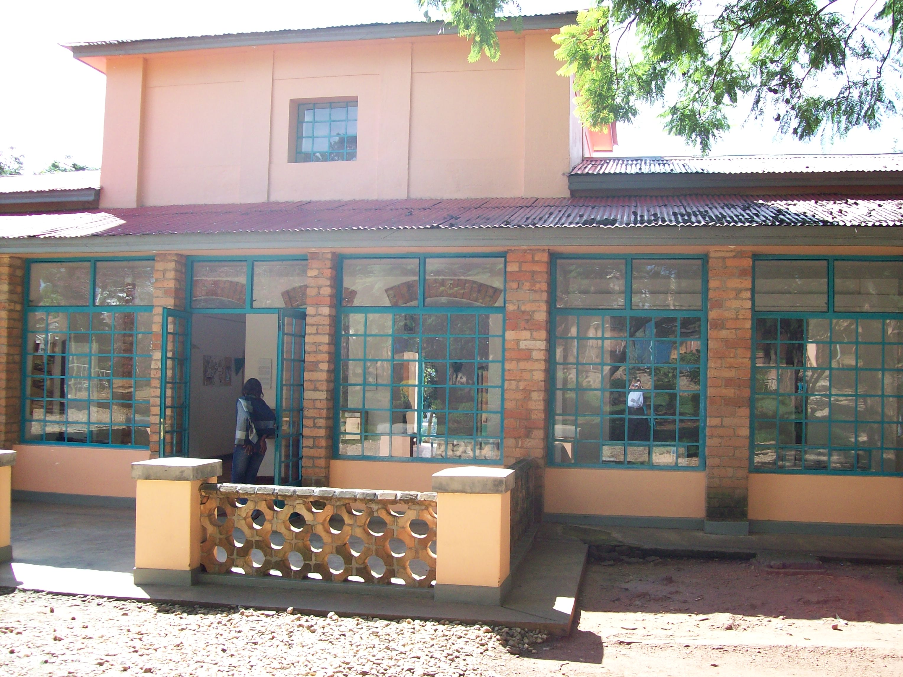 House of Richard Kandt in Kigali, Rwanda